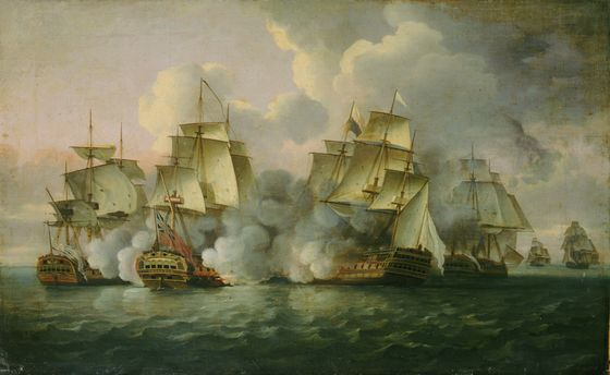 HMS 'Mediator' engaging French and American vessels, 11-12 December 1782